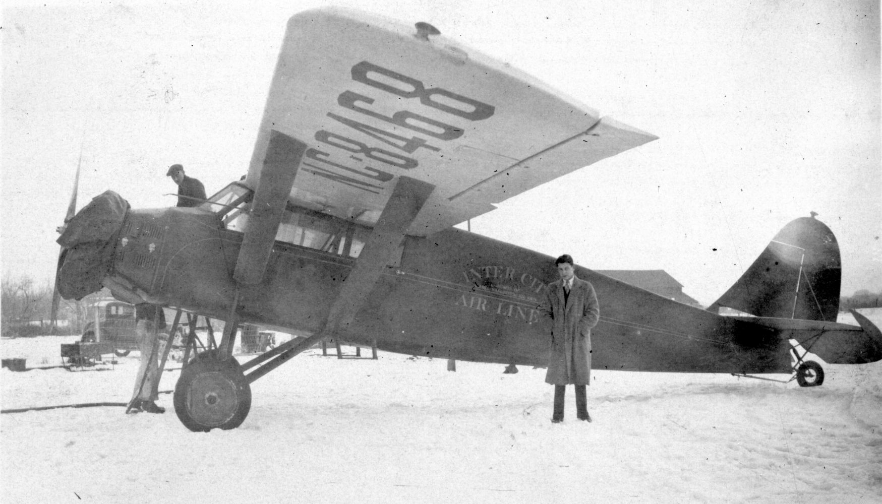 Image from an Album (AL-77) belonging to Charles Rector, who was a pilot whose career spanned several generations. Some highlights of his life include working for Tallmantz aviation on many major Hollywood Movies, and working as Mick Jagger's pilot. More info on Rector can be found here: SOURCE INSTITUTION: San Diego Air and Space Museum Archive